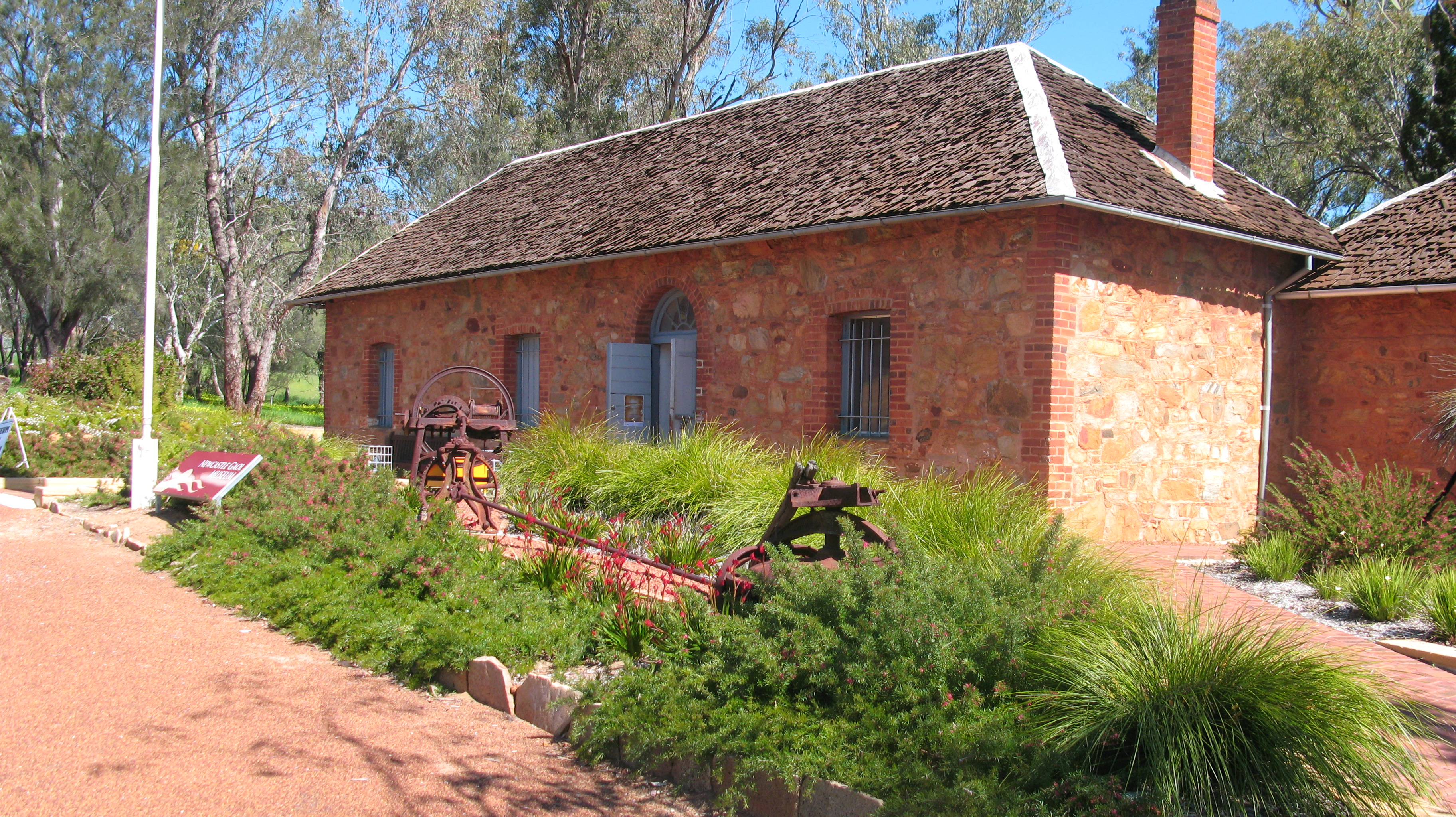 Clinton Street, Toodyay, Western Australia. Built c.1865.